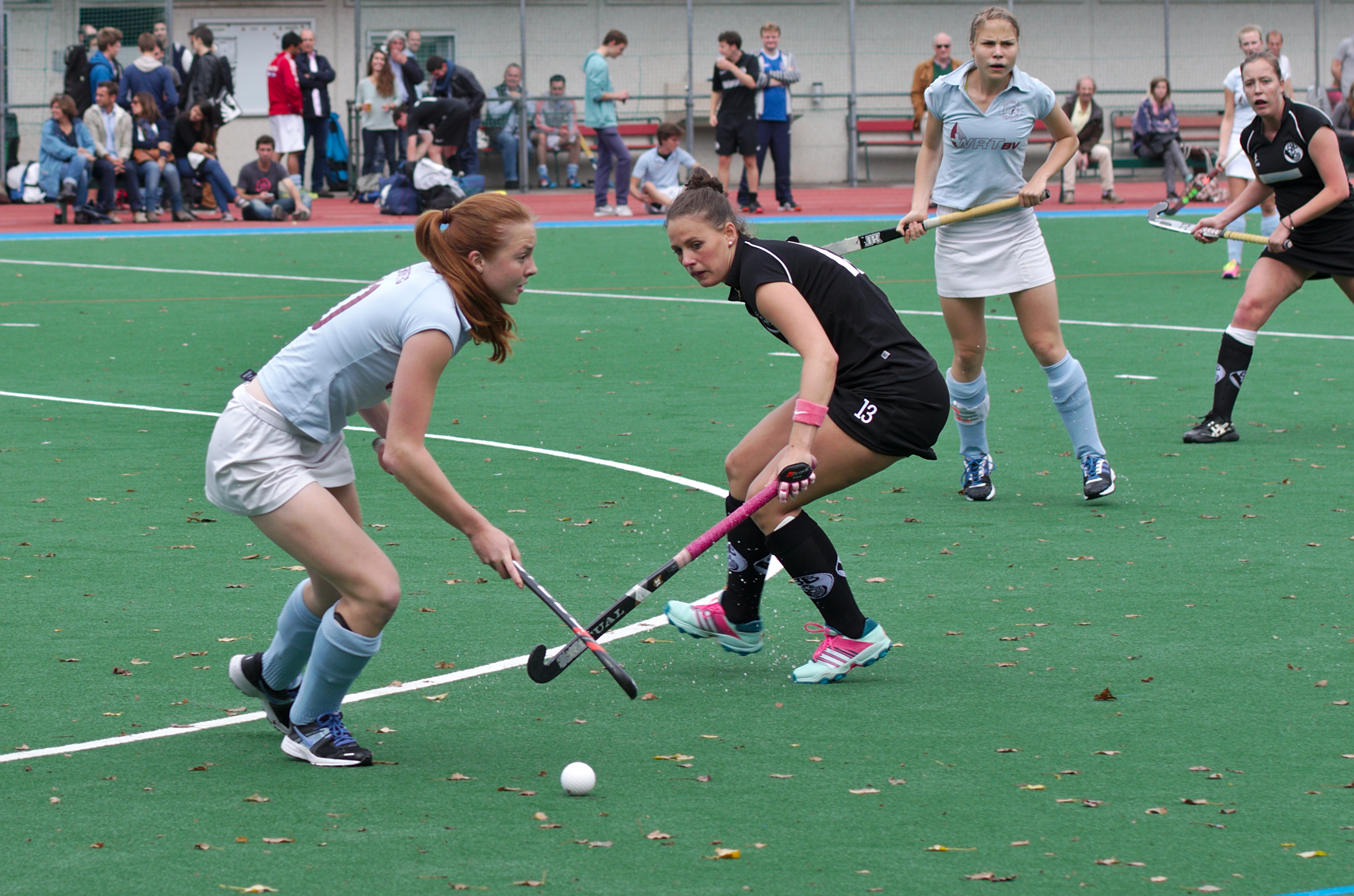 Hockey sur gazon - Servette HC vs Black Bloys HC - LNA femmes - 20141012